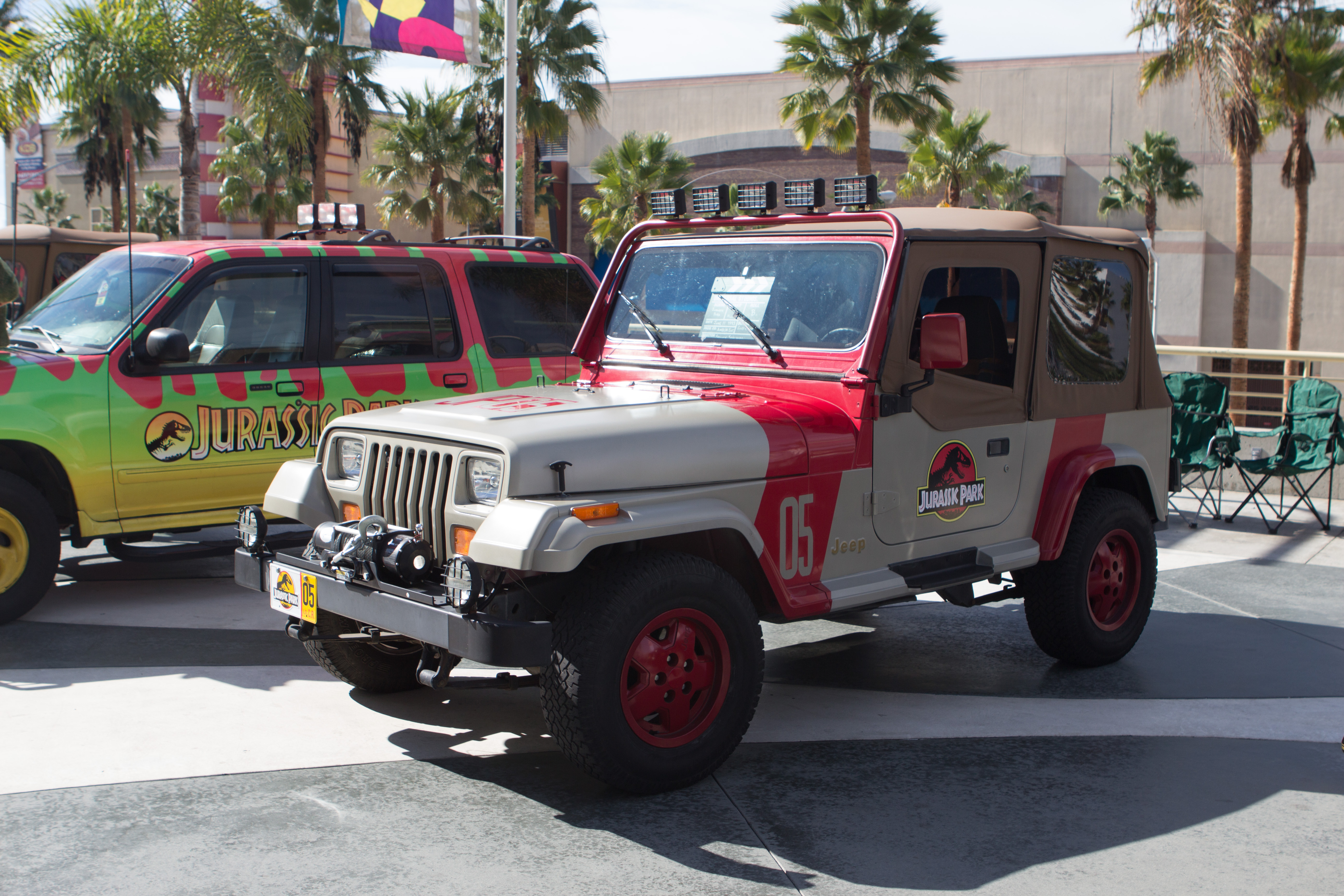 Star Car Central display at Long Beach Comic Con 2013.